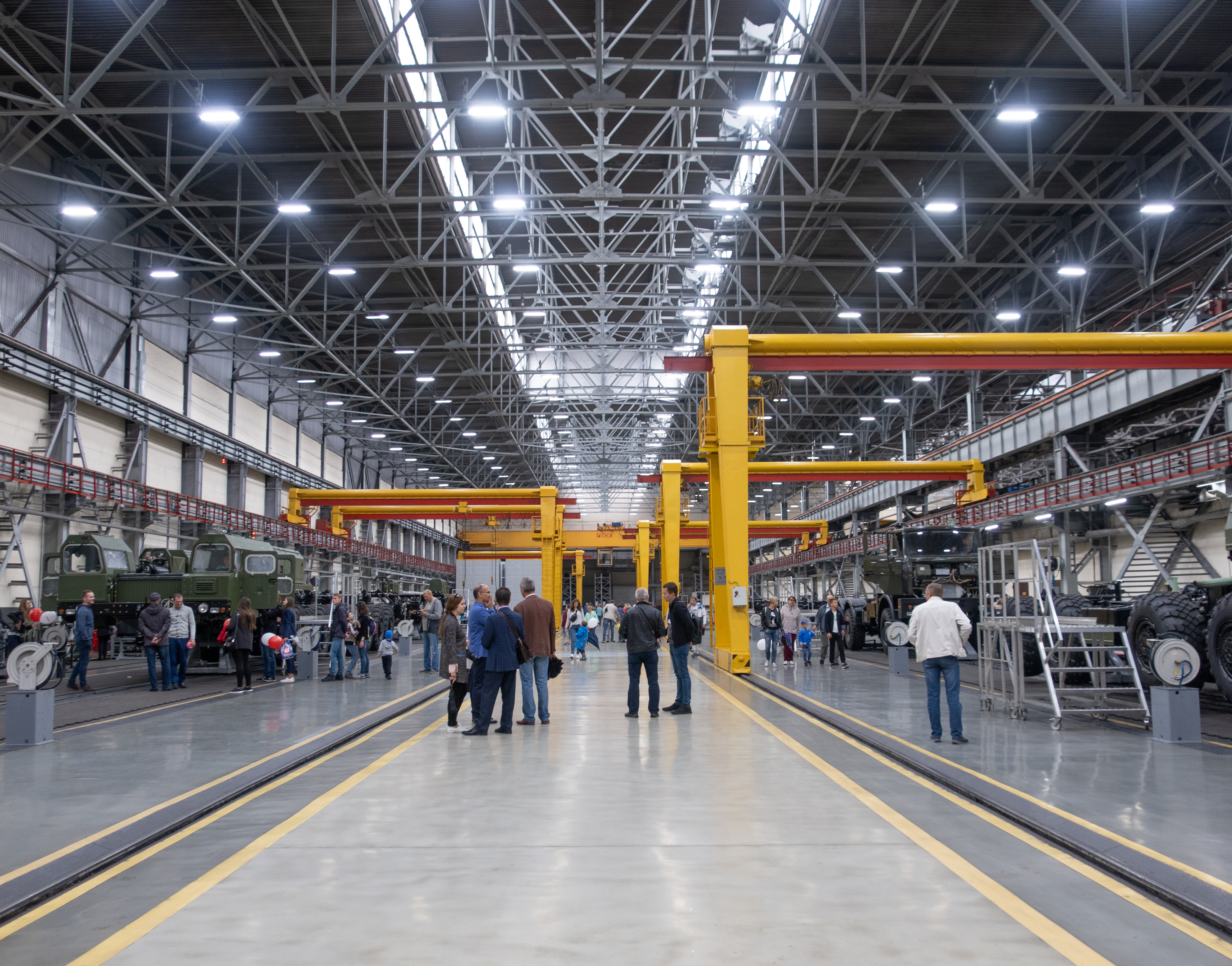 Seen at MZKT (Volat) open day 2019 (Minsk, Belarus)